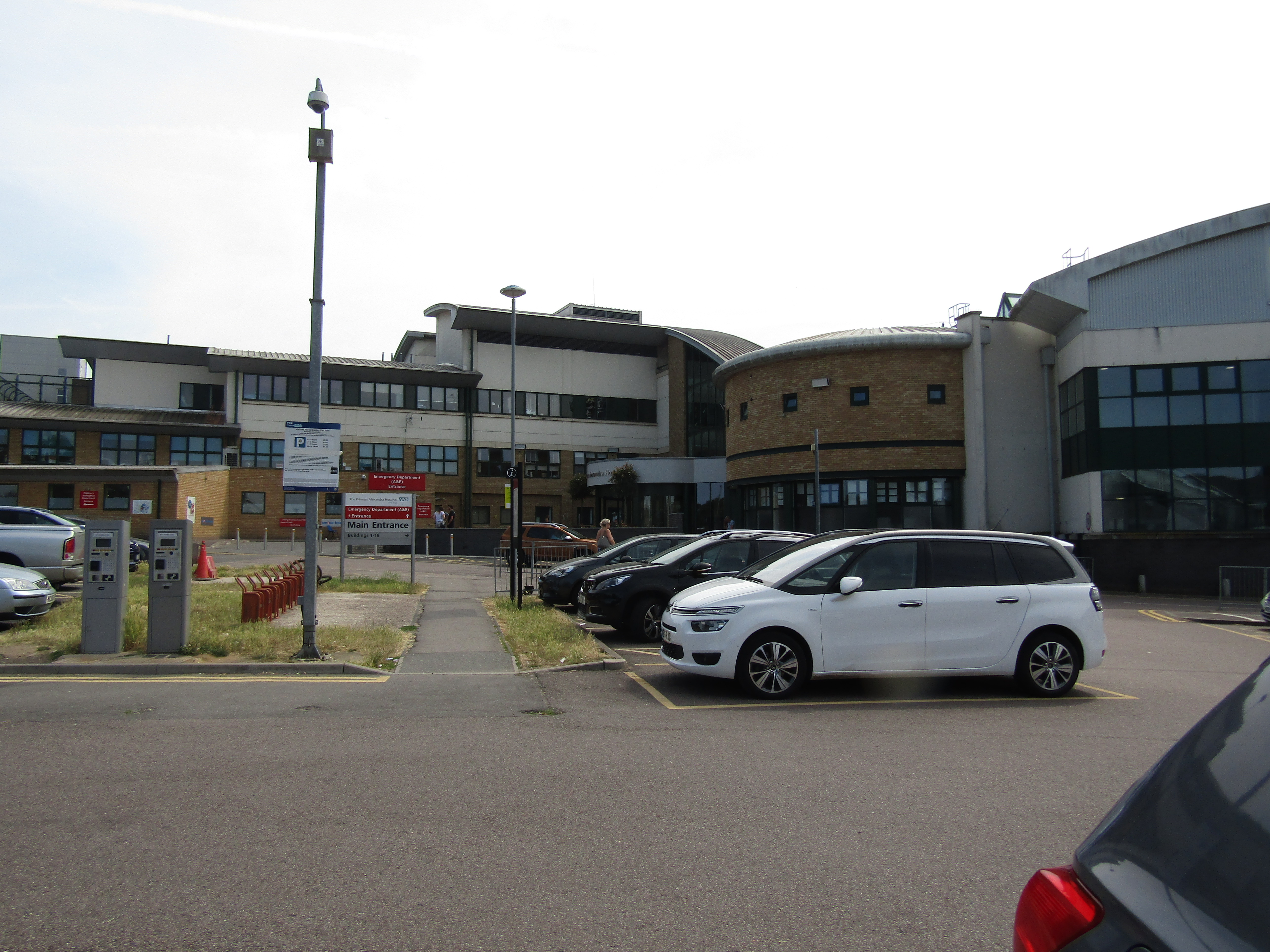 The Princess Alexandra Hospital is located on Hamstel Road within the town of Template:Harlow, Essex.